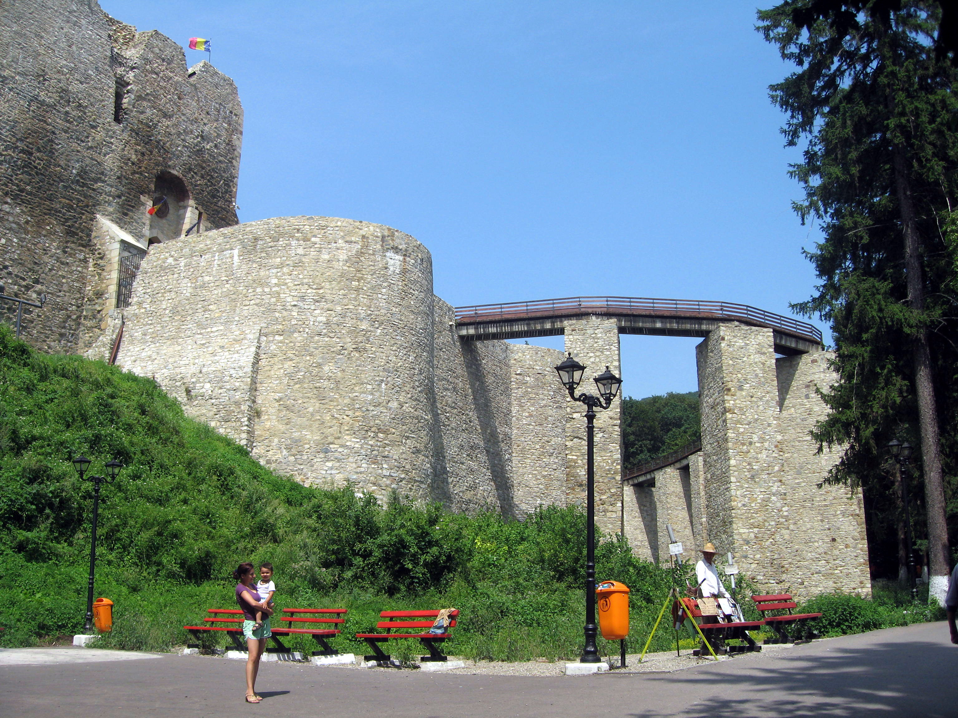 Neamț Citadel